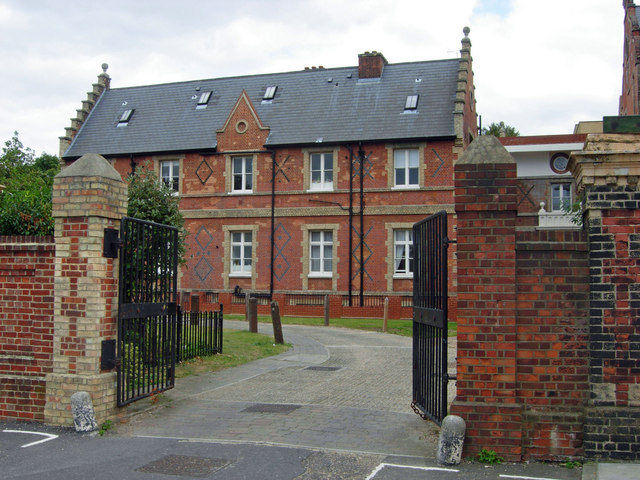 The German Hospital Seen here from Ritson Road, the German Hospital was first opened in 1845 with twelve beds to cater for London's substantial German immigrant community. It continued in this role - inpatients had to be German speakers - for almost 100 years. It survived the First World War, despite the widespread anti-German attitudes at the time, but in the Second World War the entire nursing staff were interned on the Isle of Man as potential spies. In 1948 the hospital became part of the NHS, and was latterly used for psychiatric and elderly mentally ill patients. It was closed in 1987 and subsequently converted into flats.